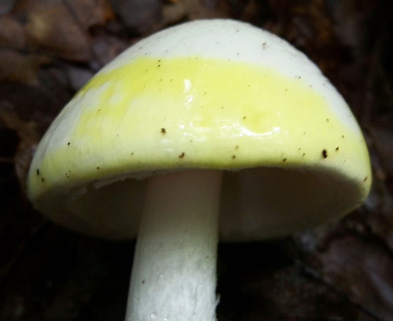 Example of a KOH yellow staining reaction with the deadly toxic mushroom Amanita bisporigera.